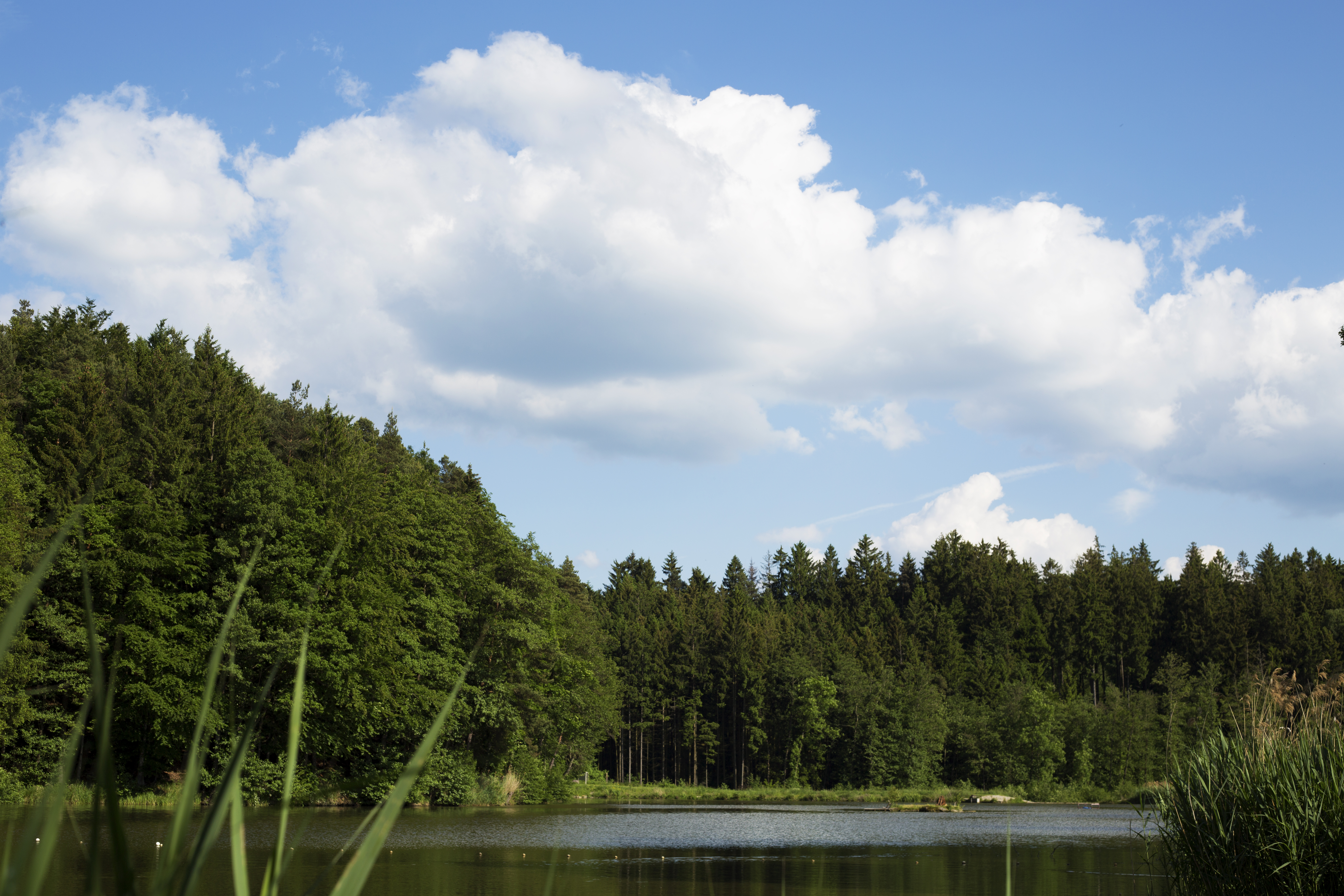 Nature at the Finsterroter See, Baden-Württemberg, Germany.